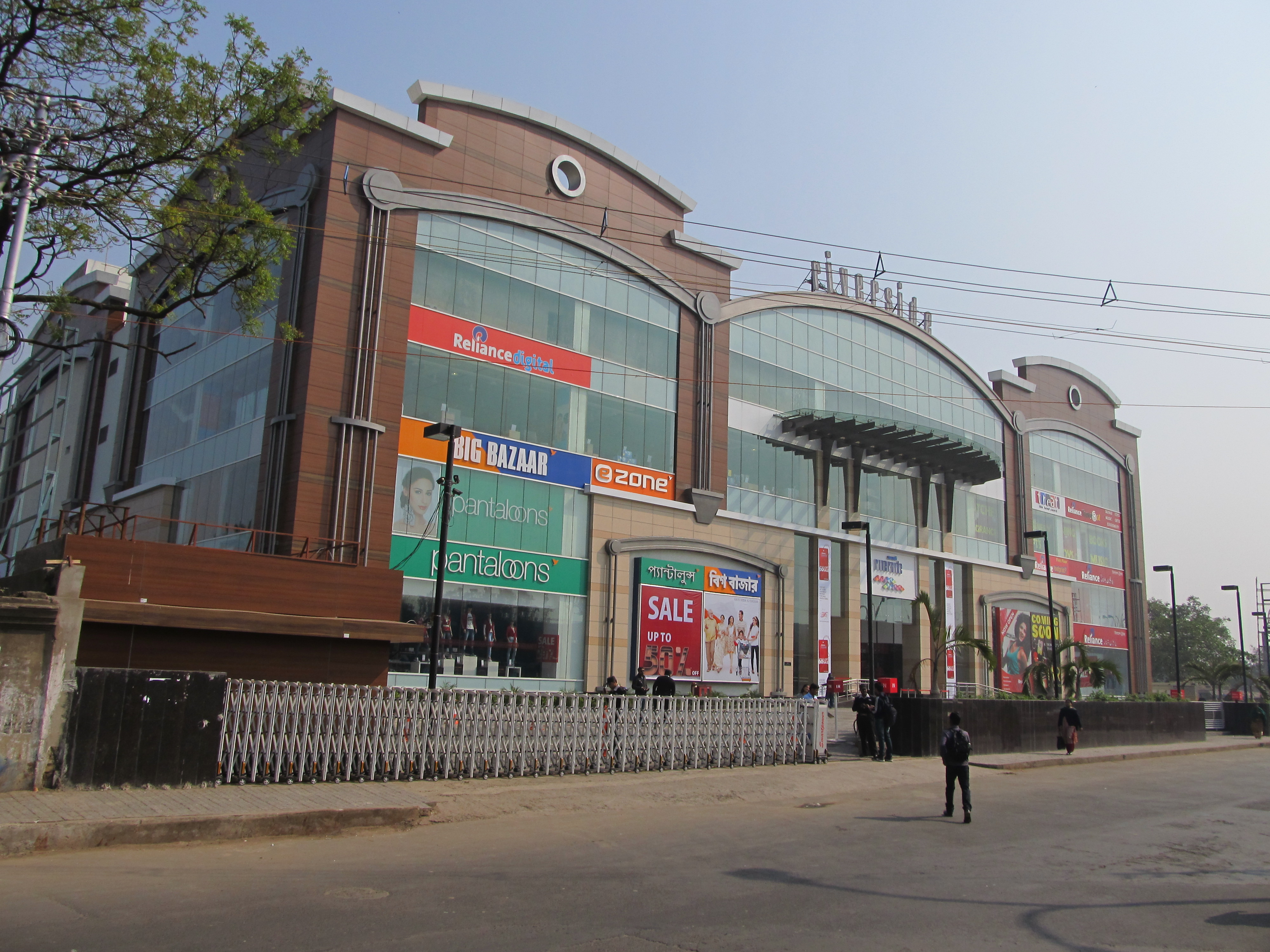 Avani Riverside Mall - Howrah (Photographed at Kolkata).